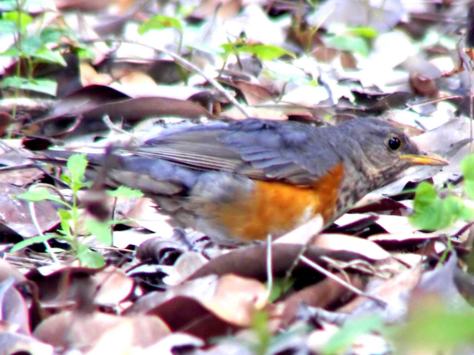 Grey-backed Thrush, Turdus hortulorum Original description: Saw this colorful broom again at seaside. Also, got a video of how it broom around the ground....:P